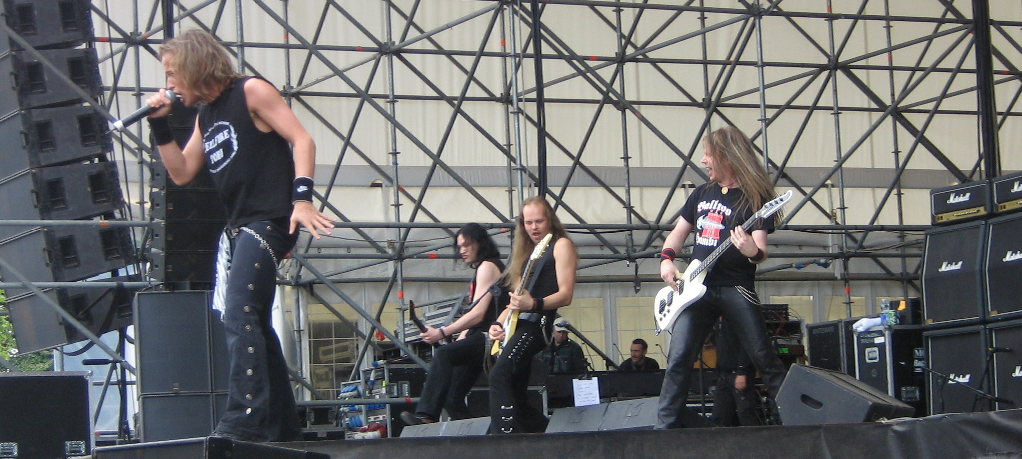 The band Edguy live at the Gods of Metal Festival 2006.